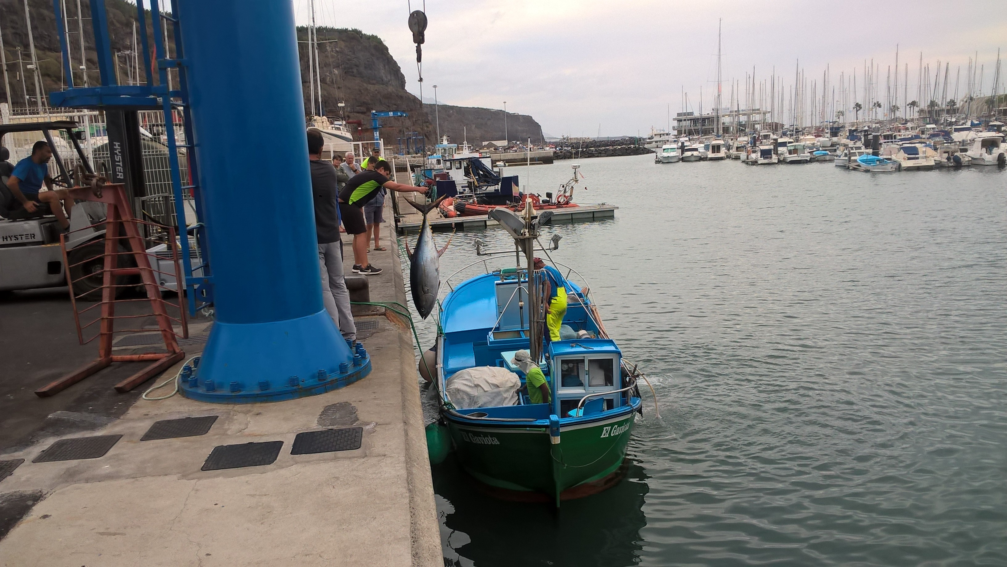 Puerto Tazacorte, tuna fishing